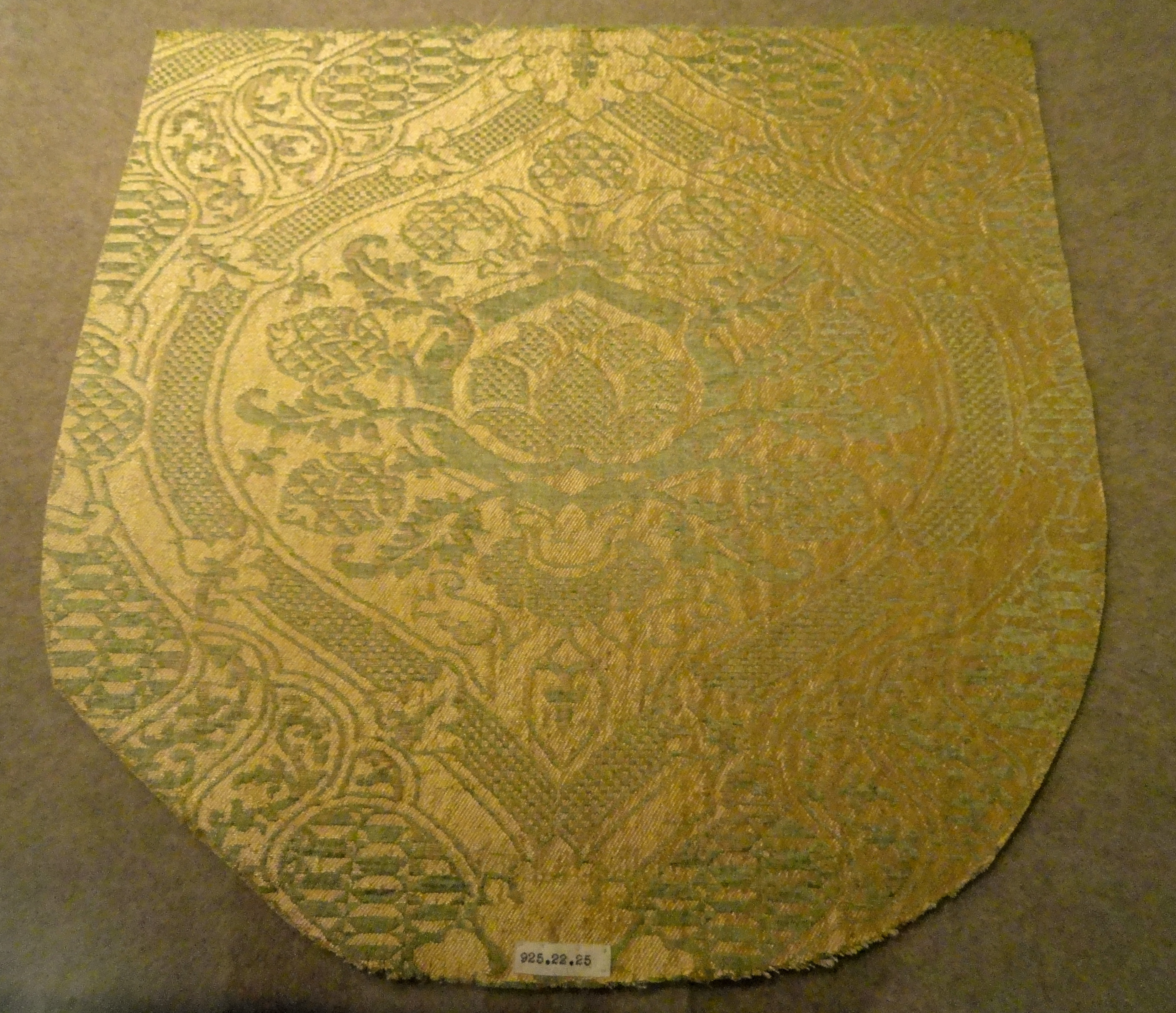 Exhibit in the Patricia Harris Gallery of Textiles & Costume, Royal Ontario Museum, Toronto, Ontario, Canada. This exhibit is old enough so that it is in the public domain, and photography was permitted in the museum. I took this photograph and release it into the public domain.